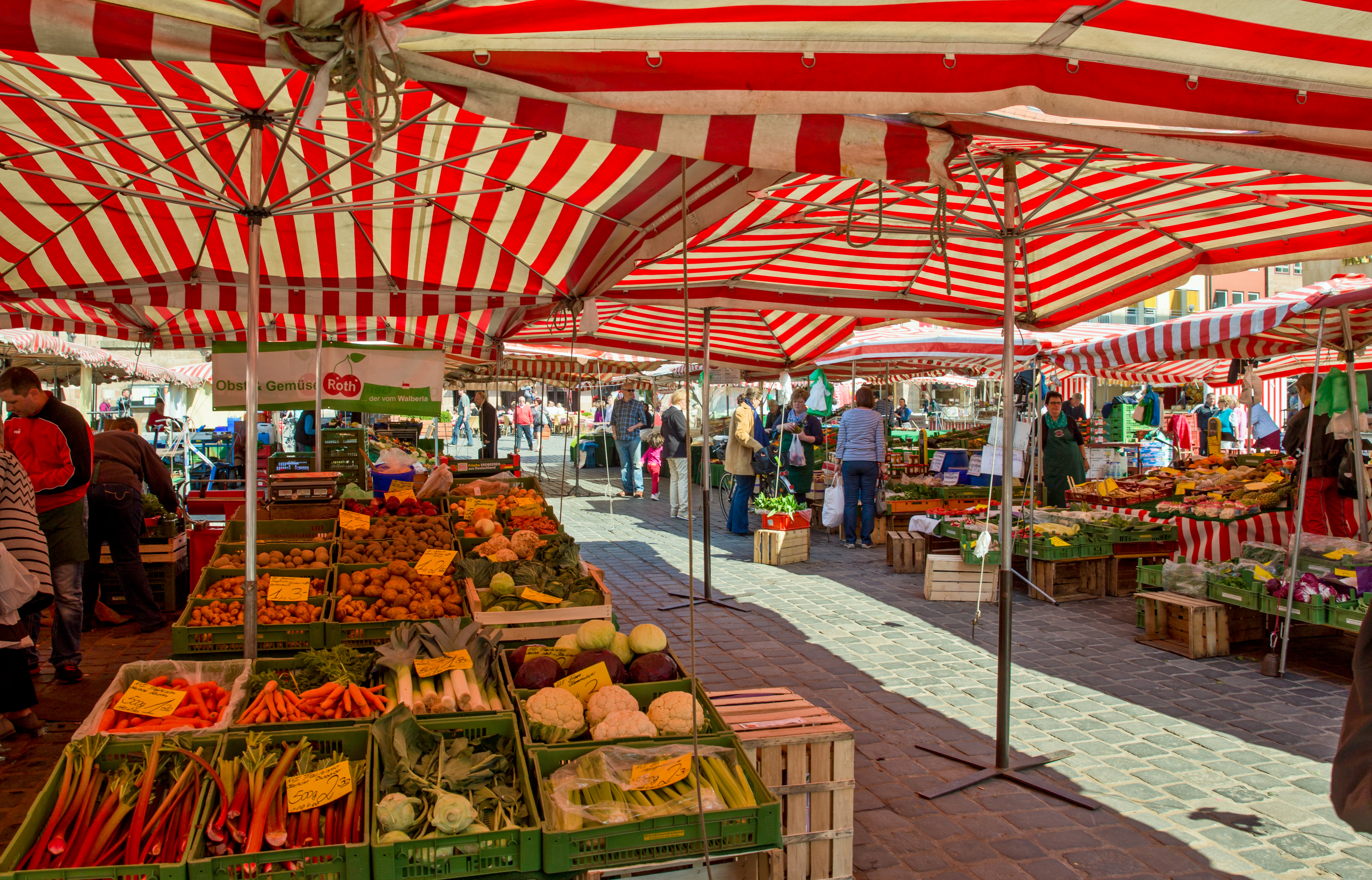 The primary market in Nuremberg.